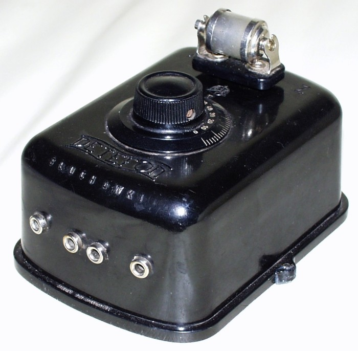 A portable crystal radio called the "Detefon" manufactured by PZT in Poland, 1930-1939. The crystal detector is mounted in the cartridge at the rear.